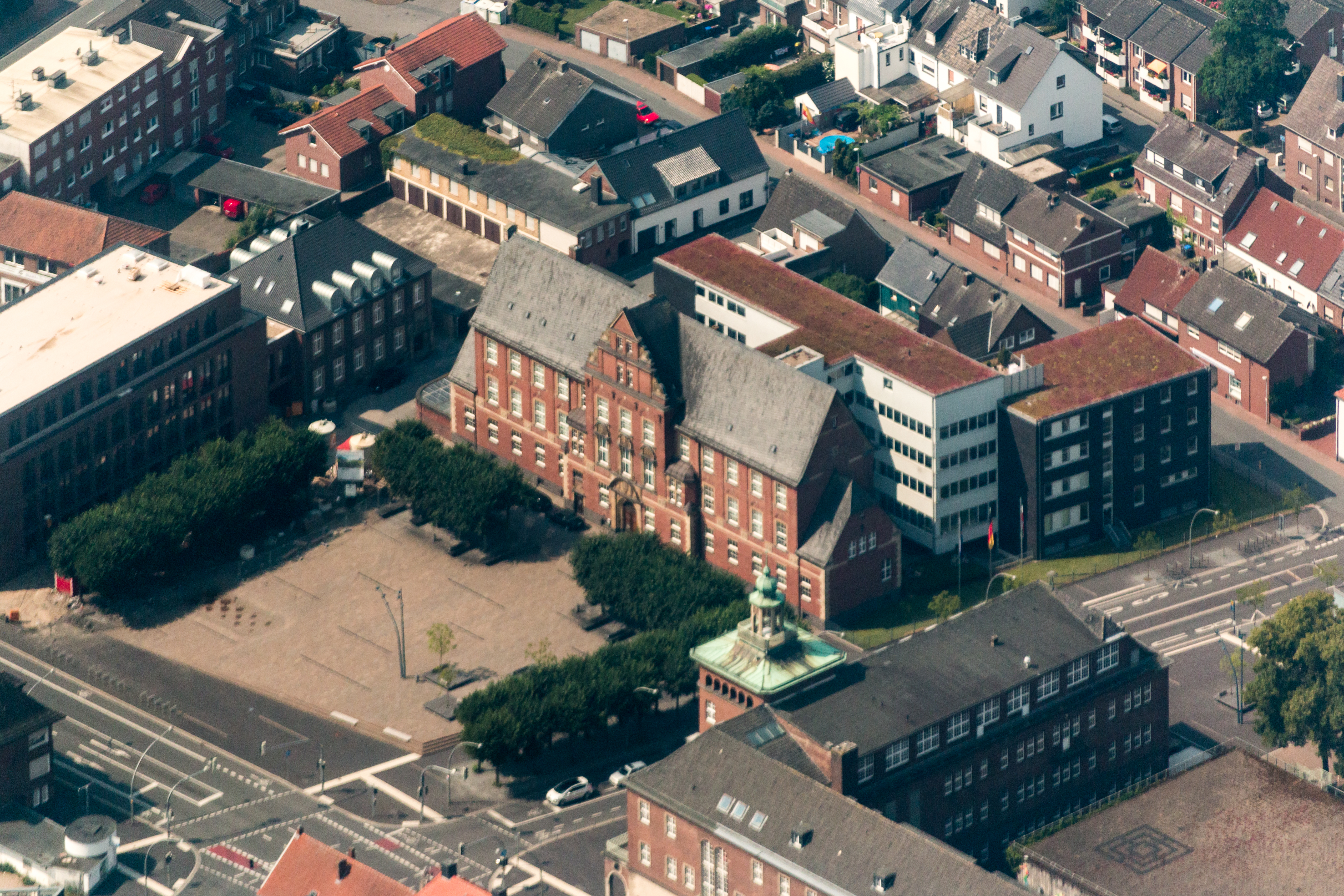 District Court, Bocholt, North Rhine-Westphalia, Germany